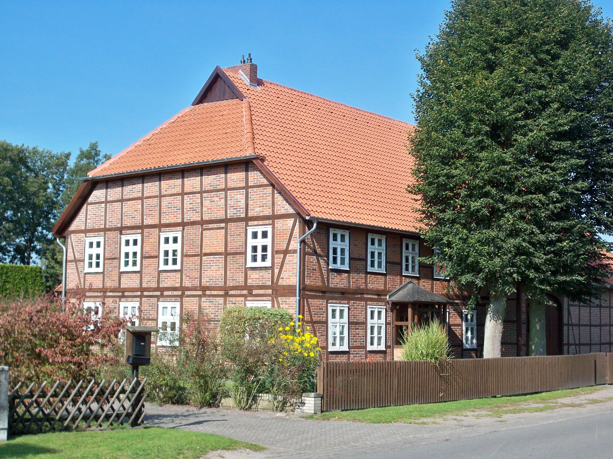 Ehra-Lessien, Lower Saxony, Lessien, house near main crossing